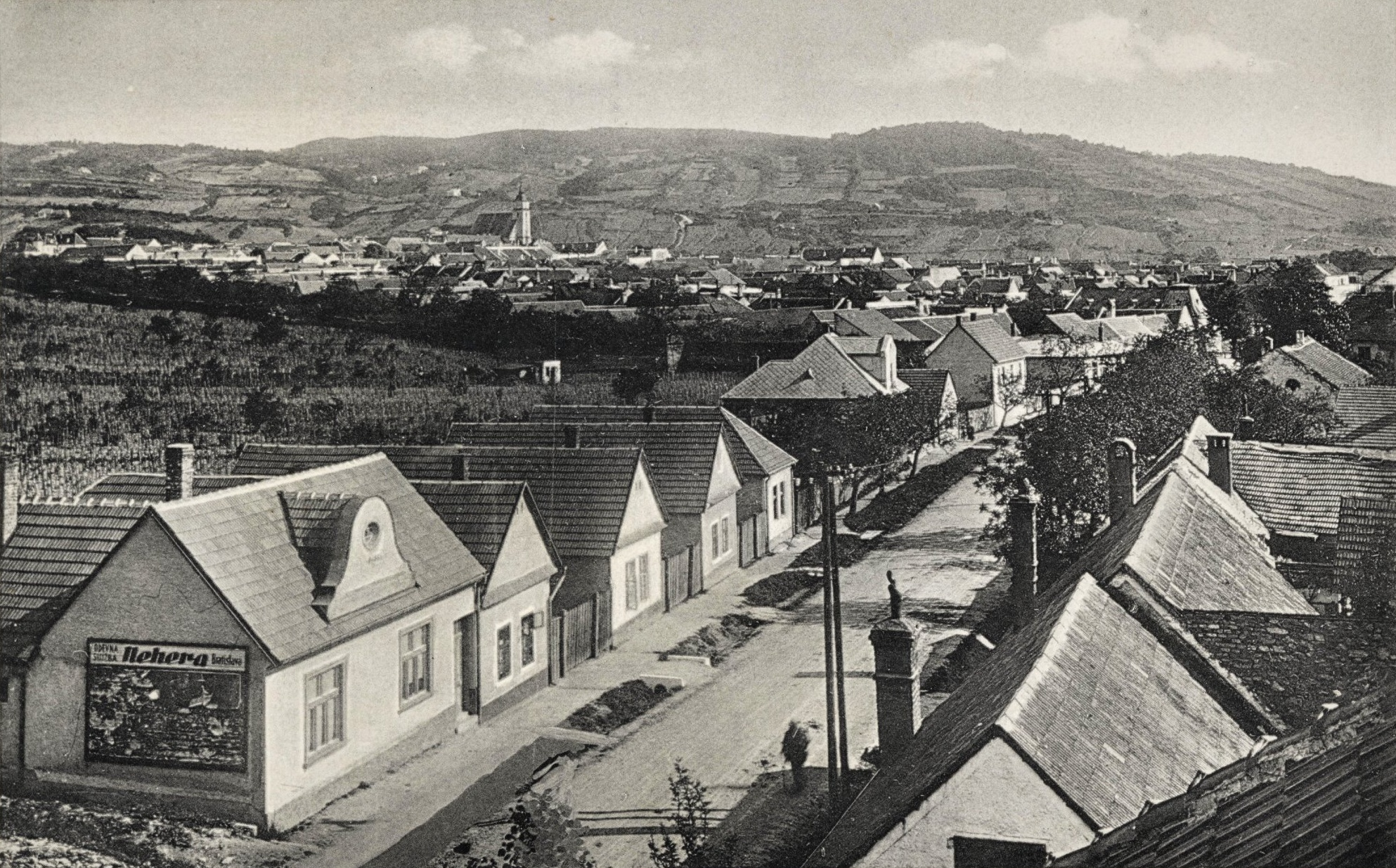 photo of the city befor the WW2